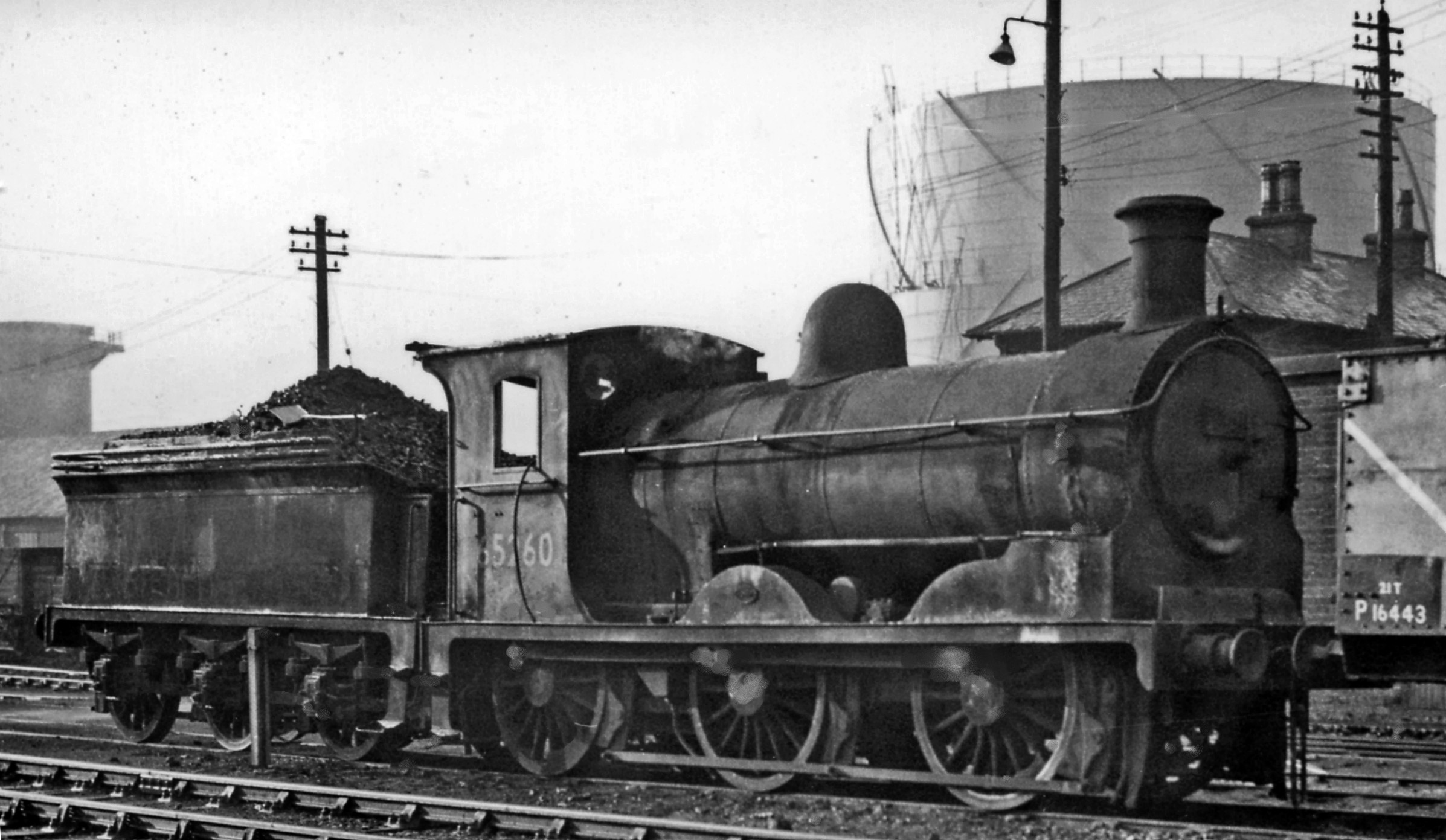 Ex-North British 0-6-0 at Kipps Locomotive Depot, near Airdrie. A long-lived ex-NB 0-6-0 work-horse, J36 No. 65260. (Not one of those that served in France in World War One and acquired a name). (See also NS7365 : Kipps Locomotive Depot, near Airdrie)